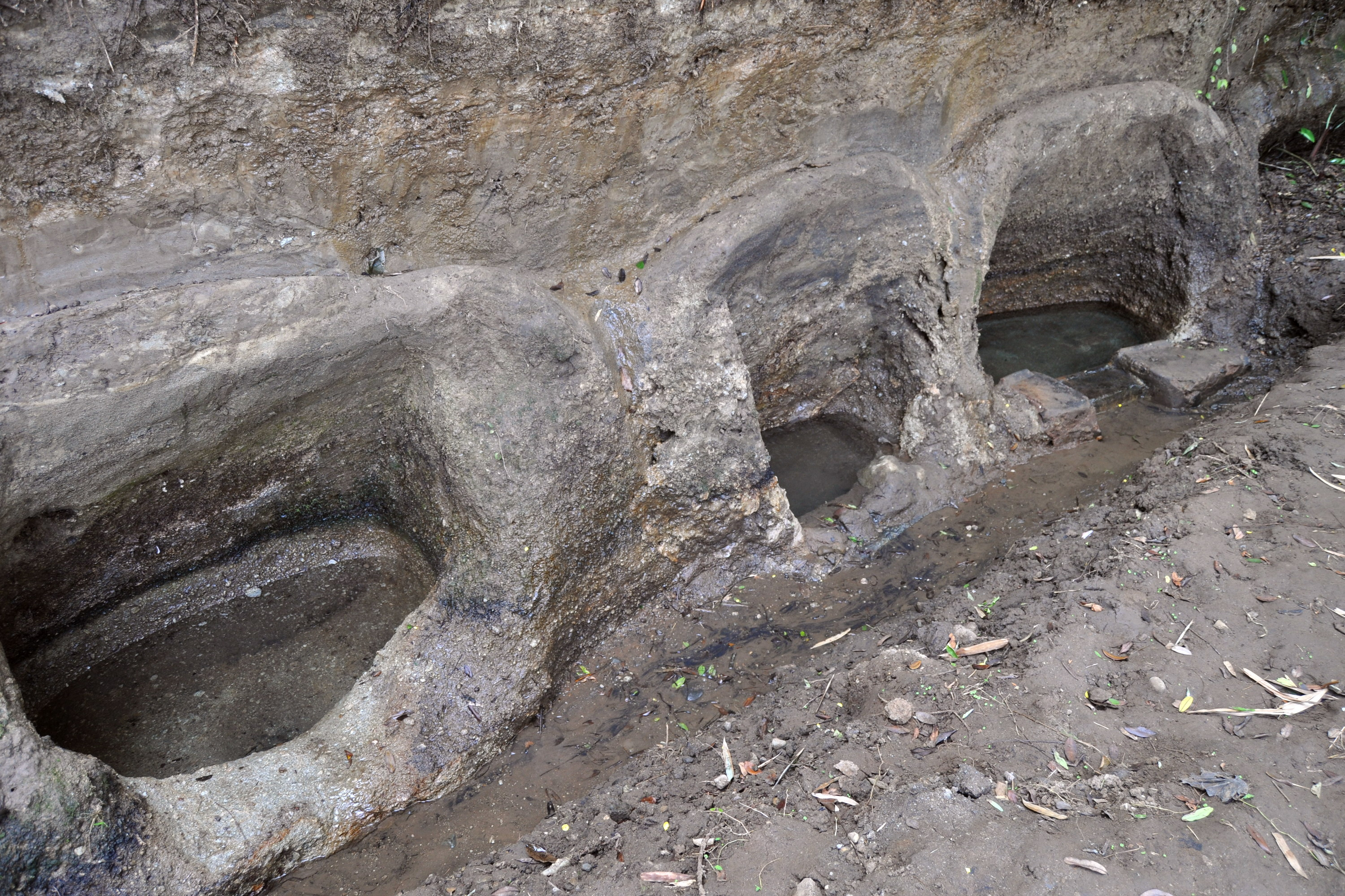 Belik (Javanese), small seeps dig by local people at river bank as source of daily water. Ponorogo, East Java, Indonesia.